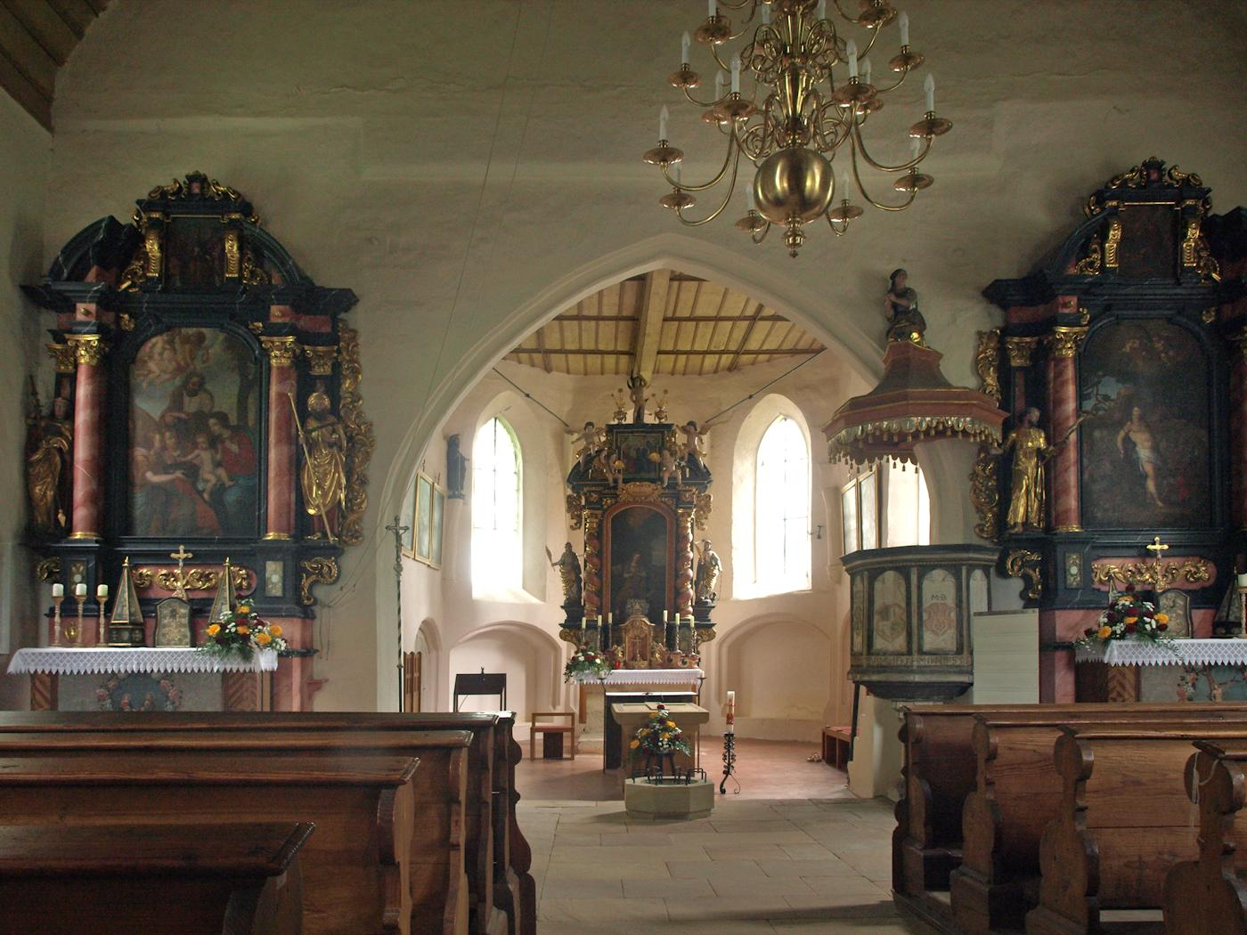 Baunach, Bavaria (Germany), Chapel St. Magdalena, interior, photo 2012